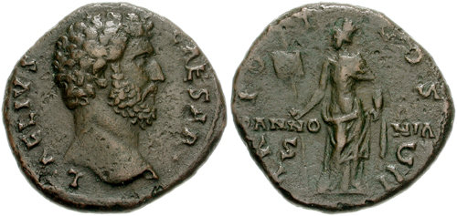 AELIUS. Caesar, 136-138 AD. Æ As (26mm, 9.96 g, 6h). Struck 137 AD. Bare head right Pannonia standing facing, head left, holding vexillum in right hand, left hand on hip. RIC II 1071 (Hadrian); BMCRE 1936 (Hadrian); Cohen 25.